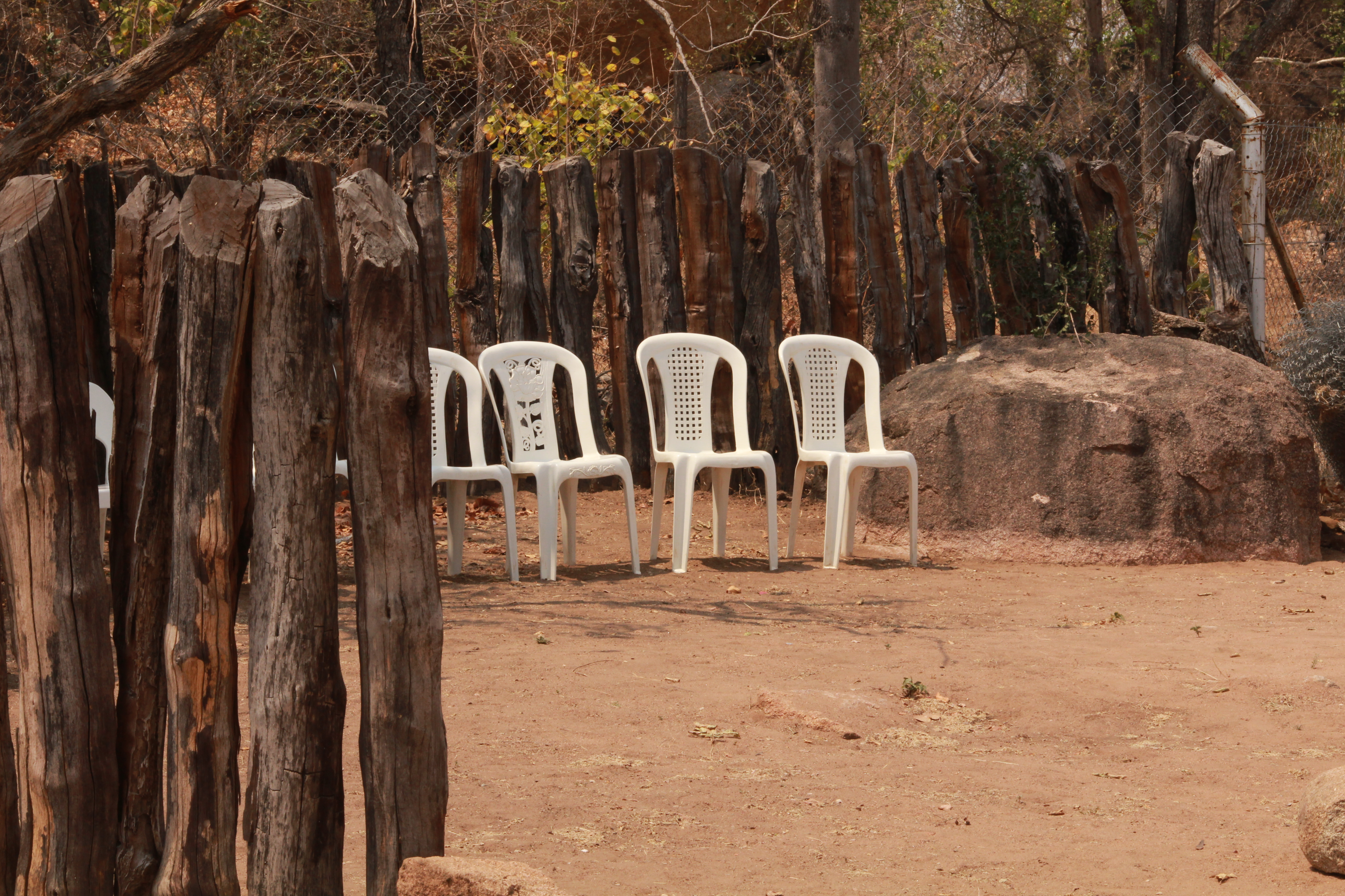 Kgotla ( Public meeting or gathering place) at the Domboshaba ruins (Domboshaba cultural festival 2017) Botswana